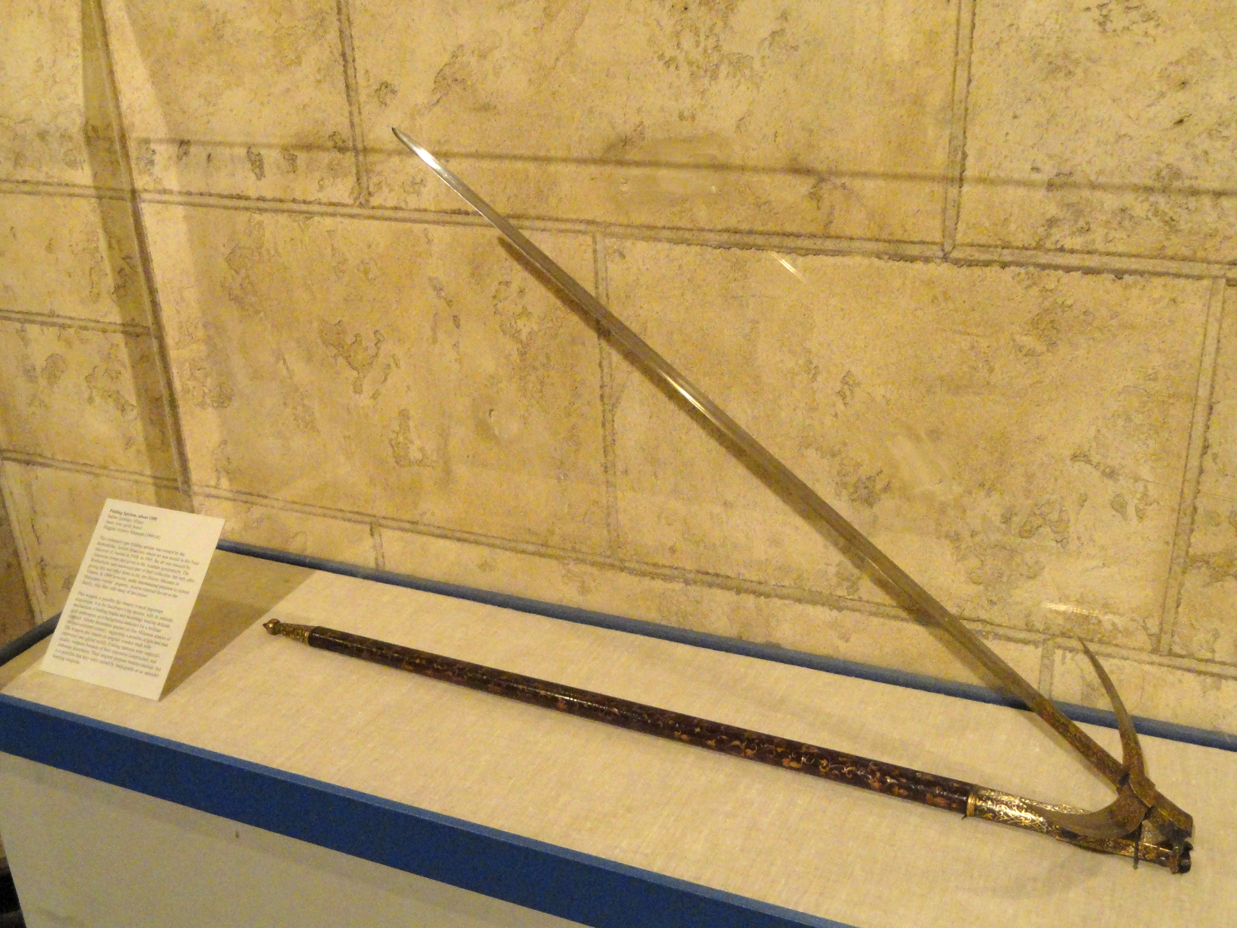 Folding spetum, Italy, c. 1550; a very fine example once owned by the Rothschild family. Exhibit in the Higgins Armory Museum, 100 Barber Avenue, Worcester, Massachusetts, USA. The museum permitted photography without any restriction, both in writing and when I asked verbally.